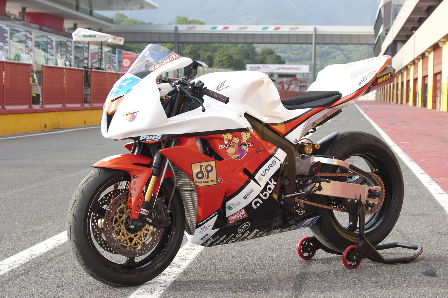 PRORACE Team Honda